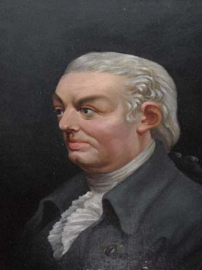 Italian Psychiatrist Vincenzo Chiarugi